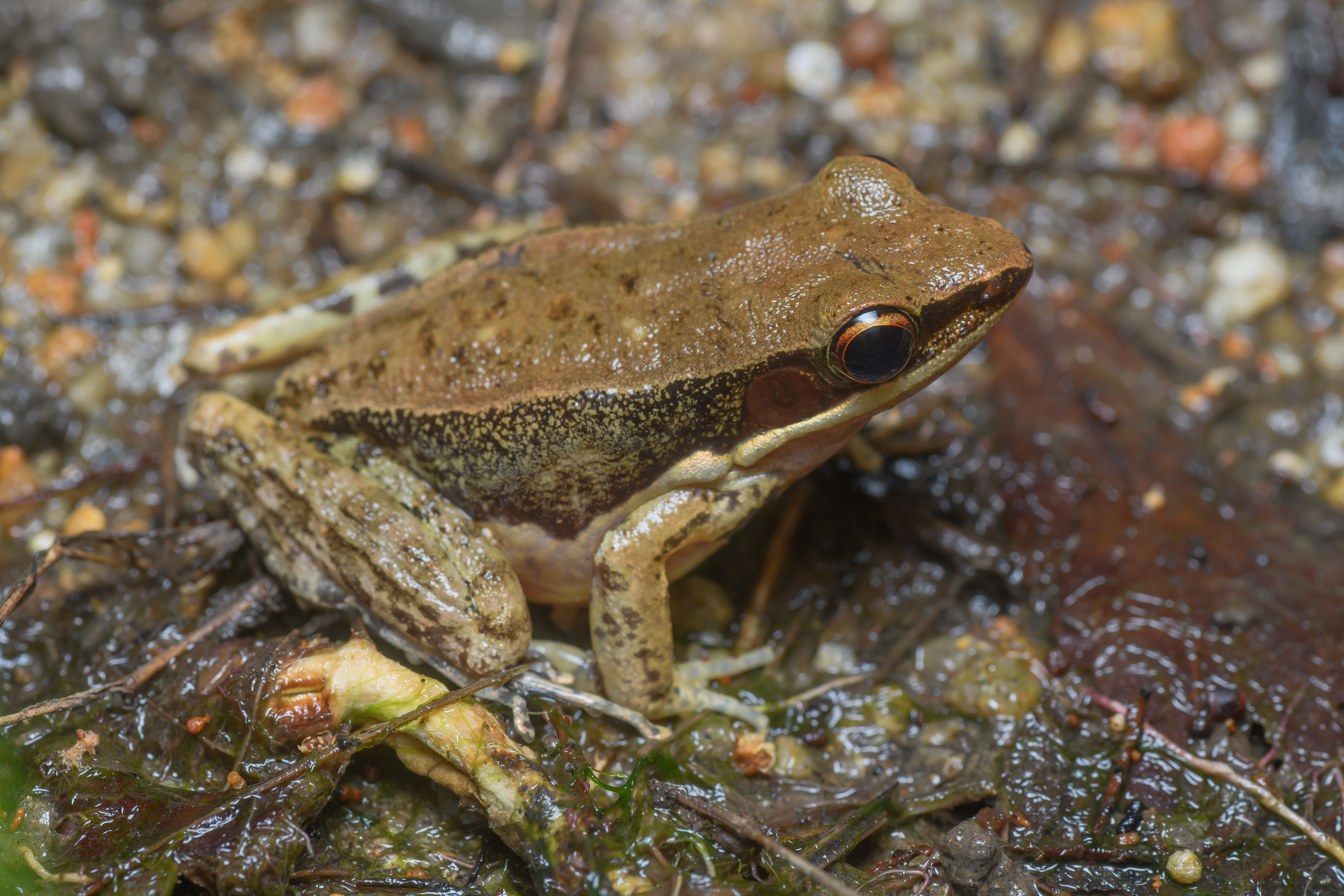 Sylvirana malayana - Takua Pa District, Phang-nga Province This photo is published under Creative Commons Attribution-Share-Alike Licence, means you are free to use this photo with attribution under same licence. For credits, please use following; Owner: Thai National Parks Link